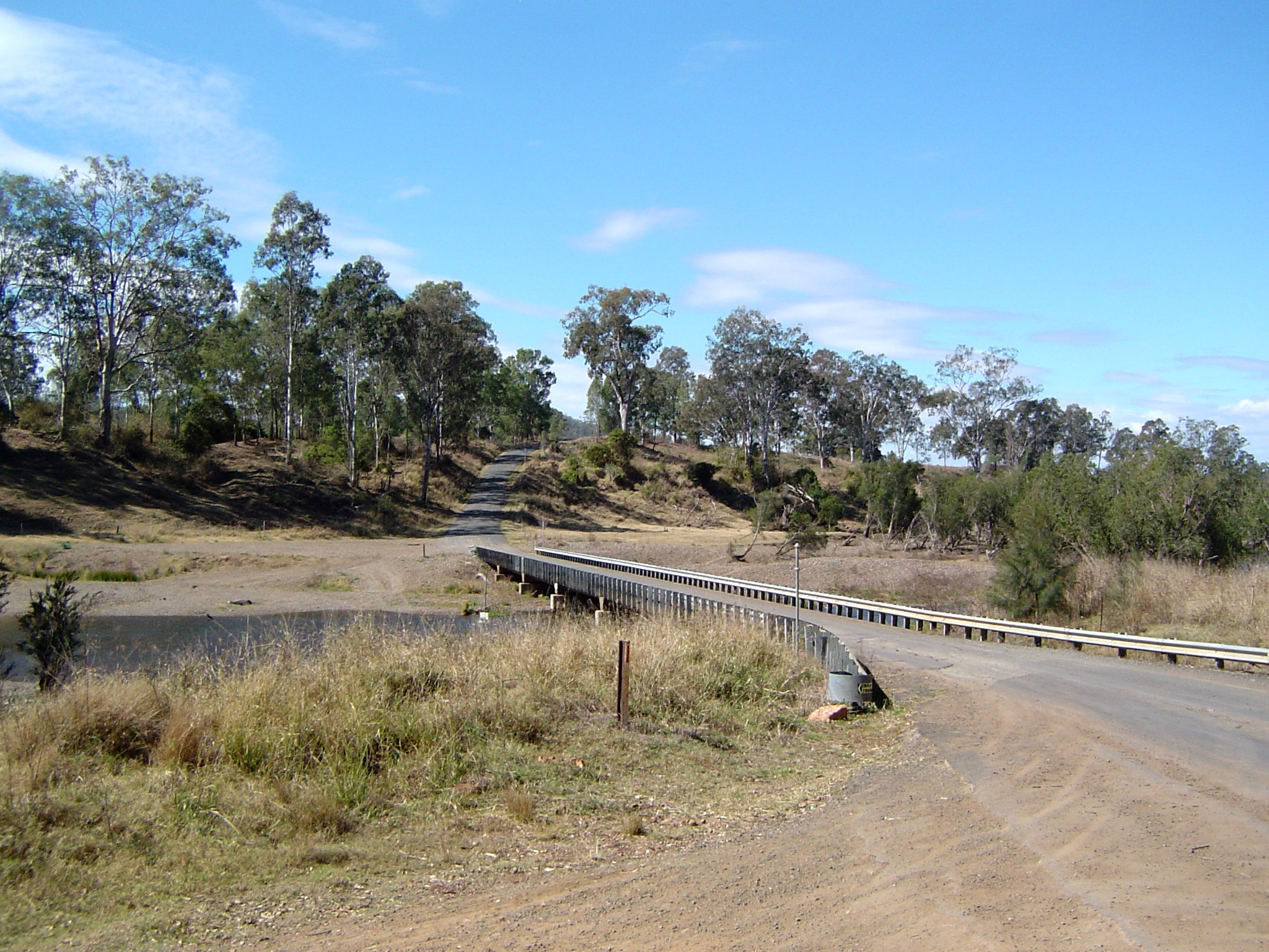 Photo of Savages Crossing at Fernvale, Somerset Region, Queensland, Australia.